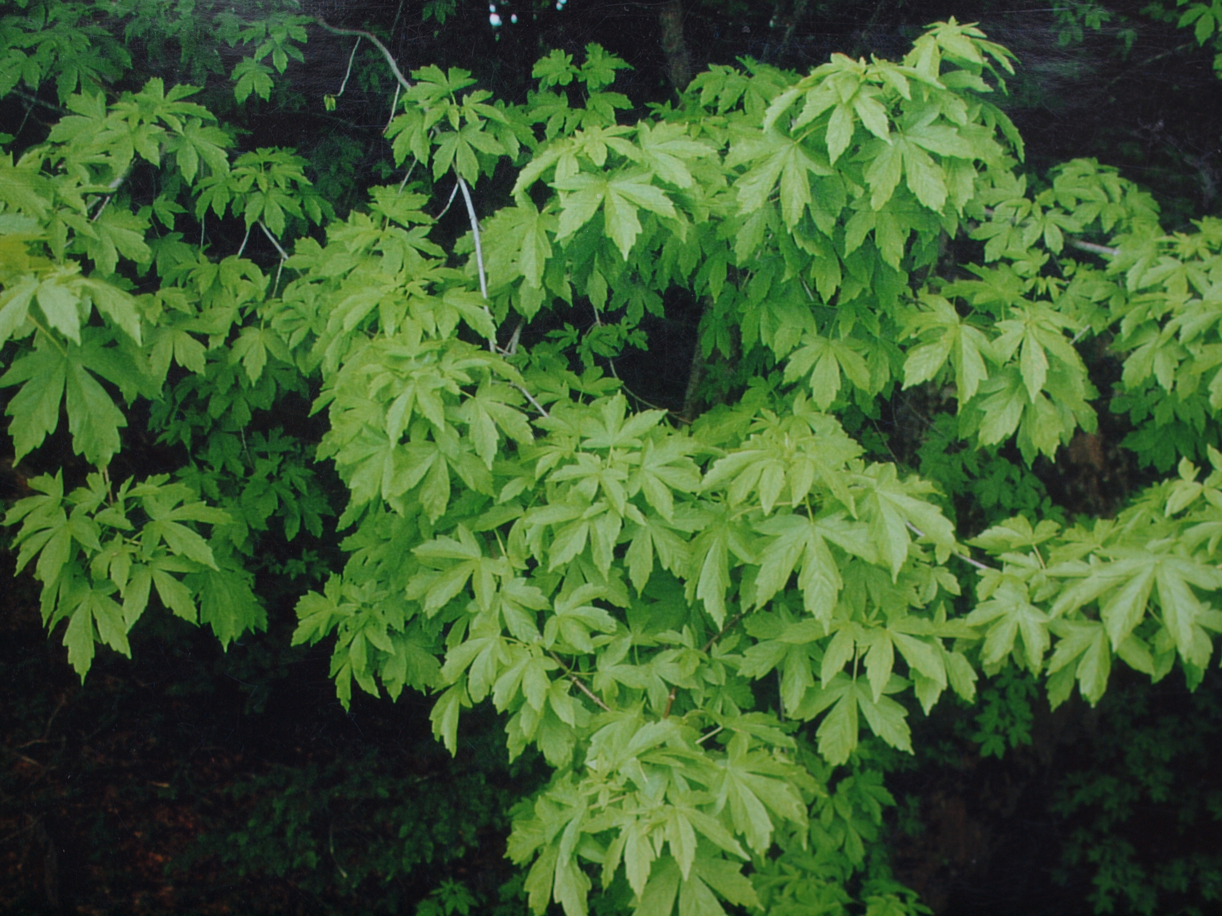 Acer heldreichii ssp visianii Mt Orjen Monenegro